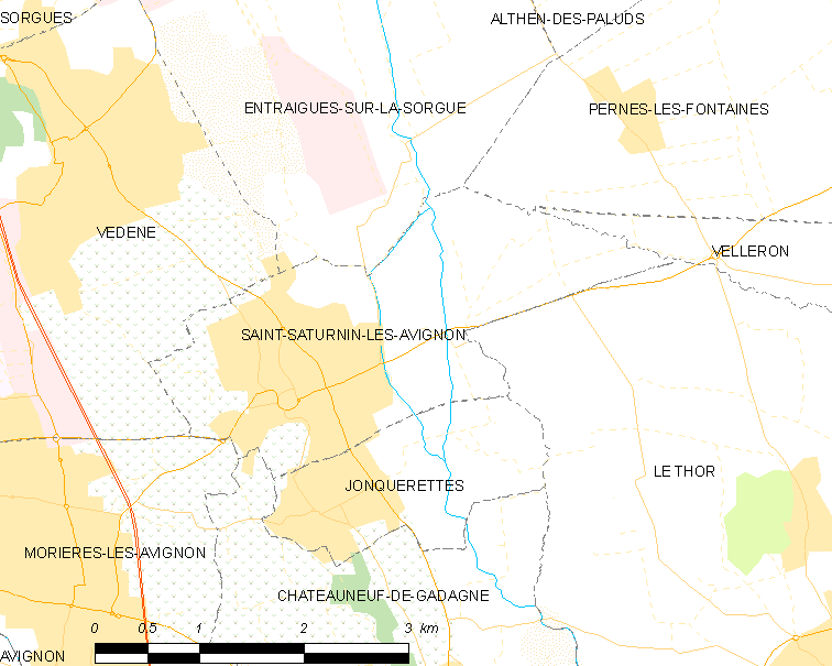 Map of French municipality Saint-Saturnin-lès-Avignon